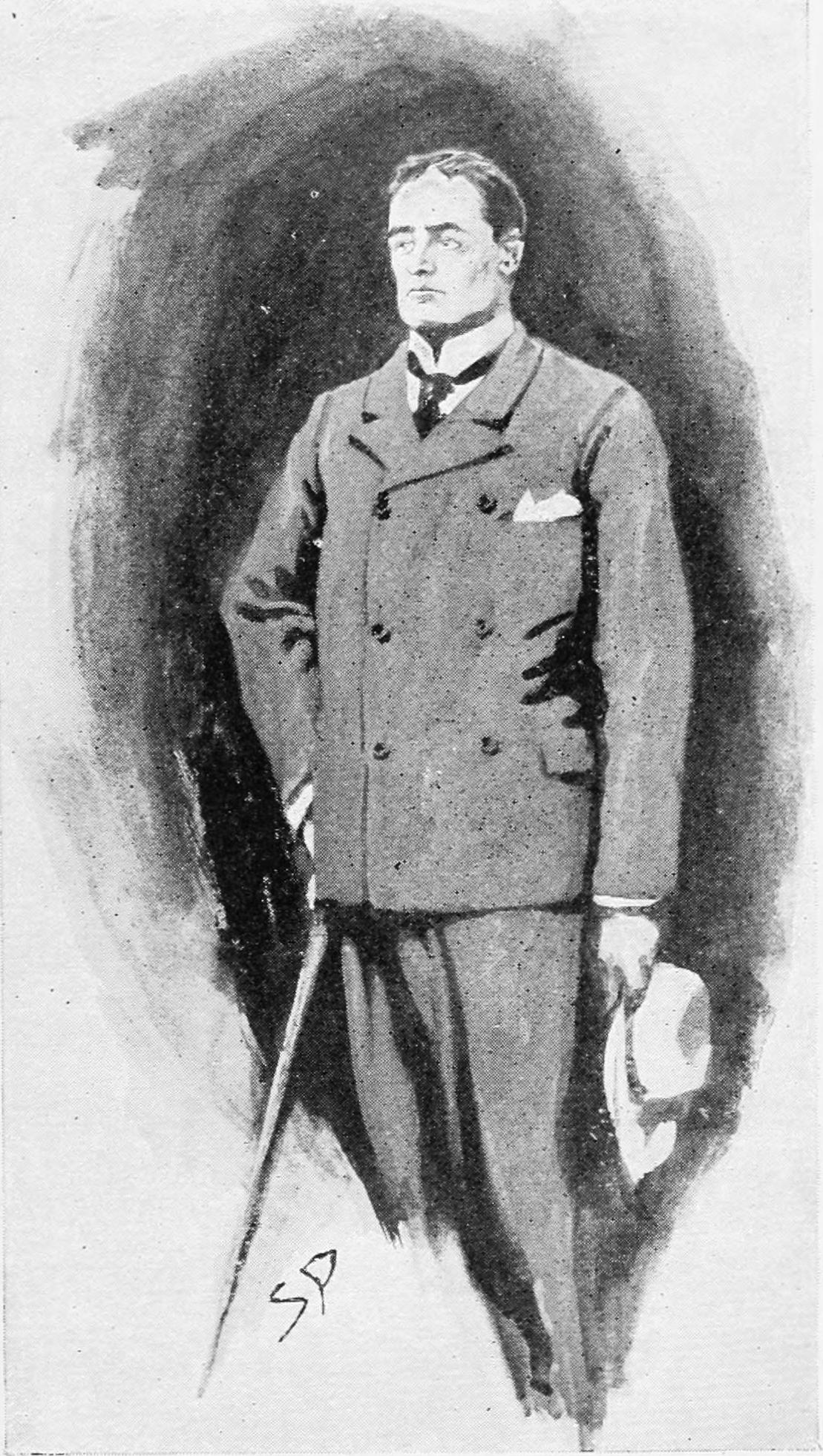 An page scan of a book The Hound of the Baskervilles by Arthur Conan Doyle. Illustration appeared in The Strand Magazine in September, 1901. Original caption was SIR HENRY BASKERVILLE. image cropped, captions removed, converted to b&w